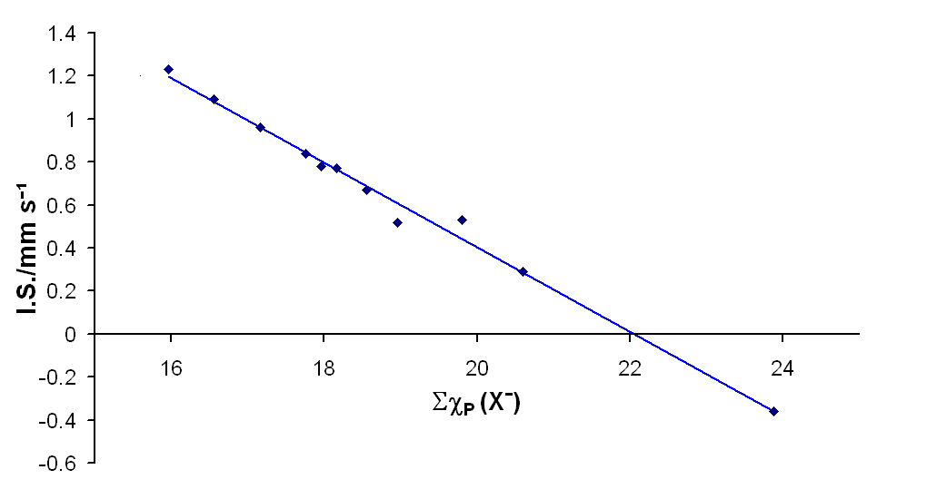 Isomer shifts (119Sn Mössbauer spectroscopy) for [SnX6]2− ions (X = halogen), plotted againt the sum of the Pauling electronegativities of the halide ligands. Data from Clasen, C. A.; Good, M. L. (1970). Inorg. Chem. 9:817.